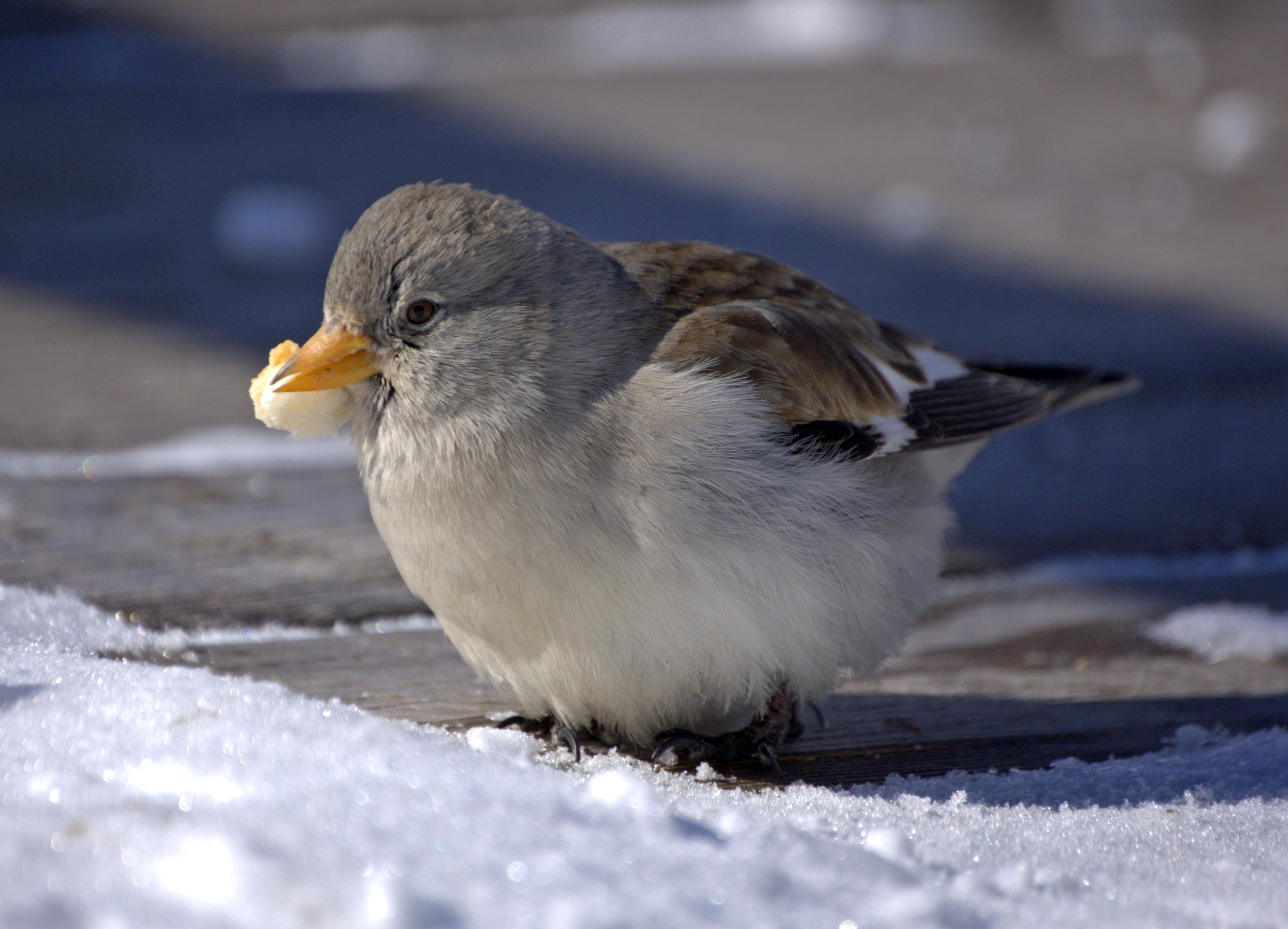 A White-winged Snowfinch eating some bread in the Dolomites, Italy. Photographed in February.